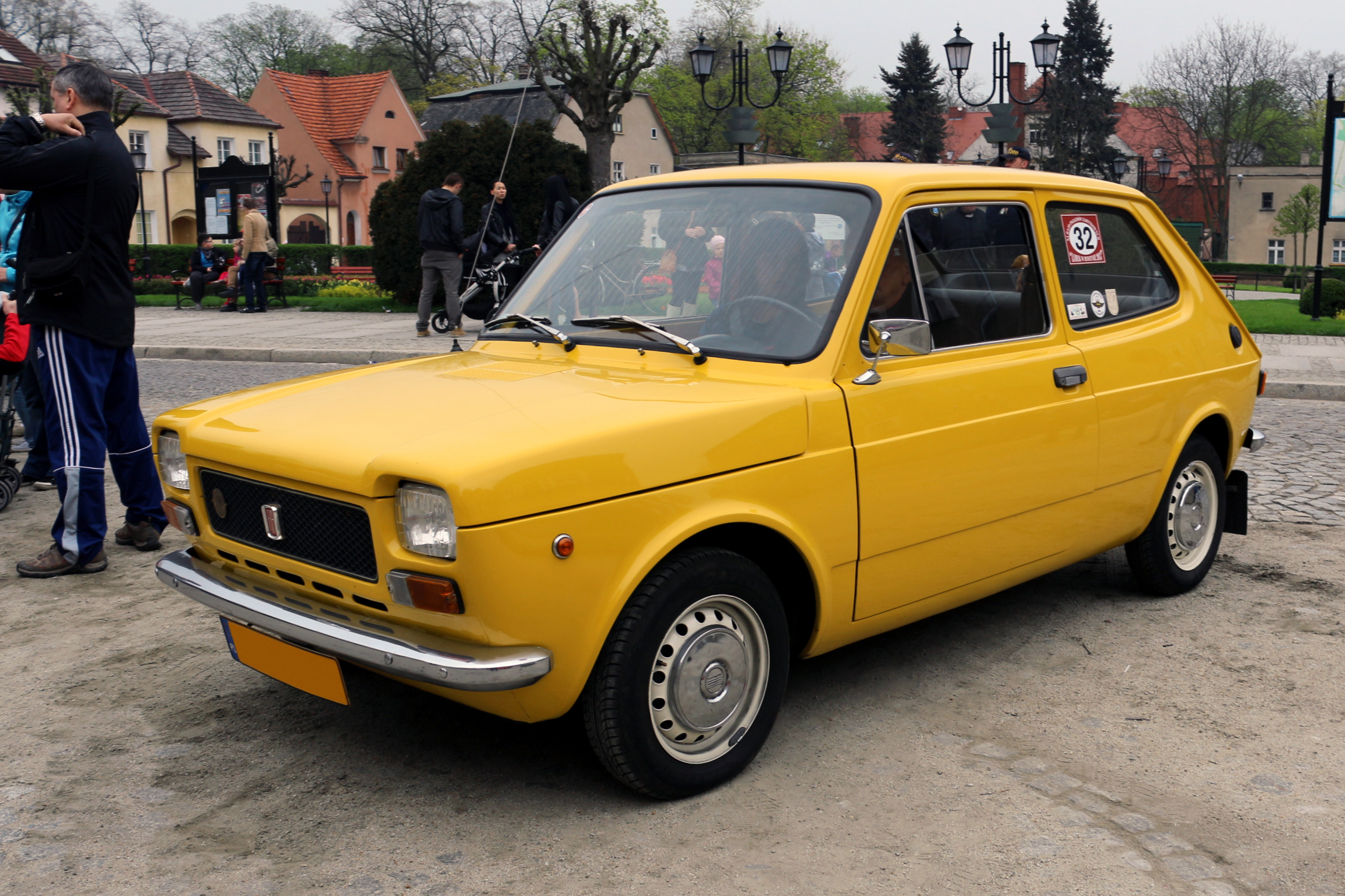 FIAT 127p 1974